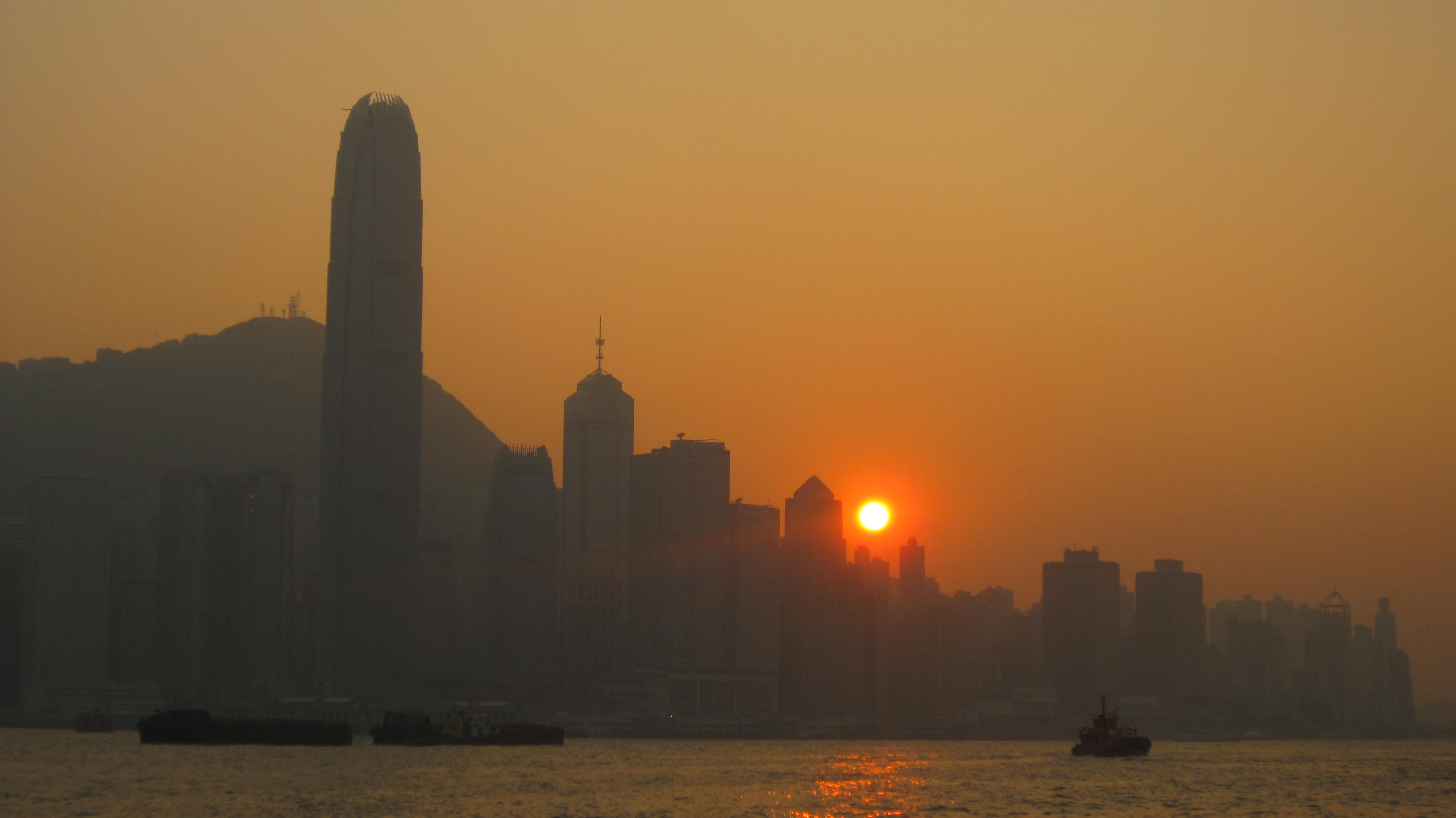 Sunset in HKI East, Hong Kong